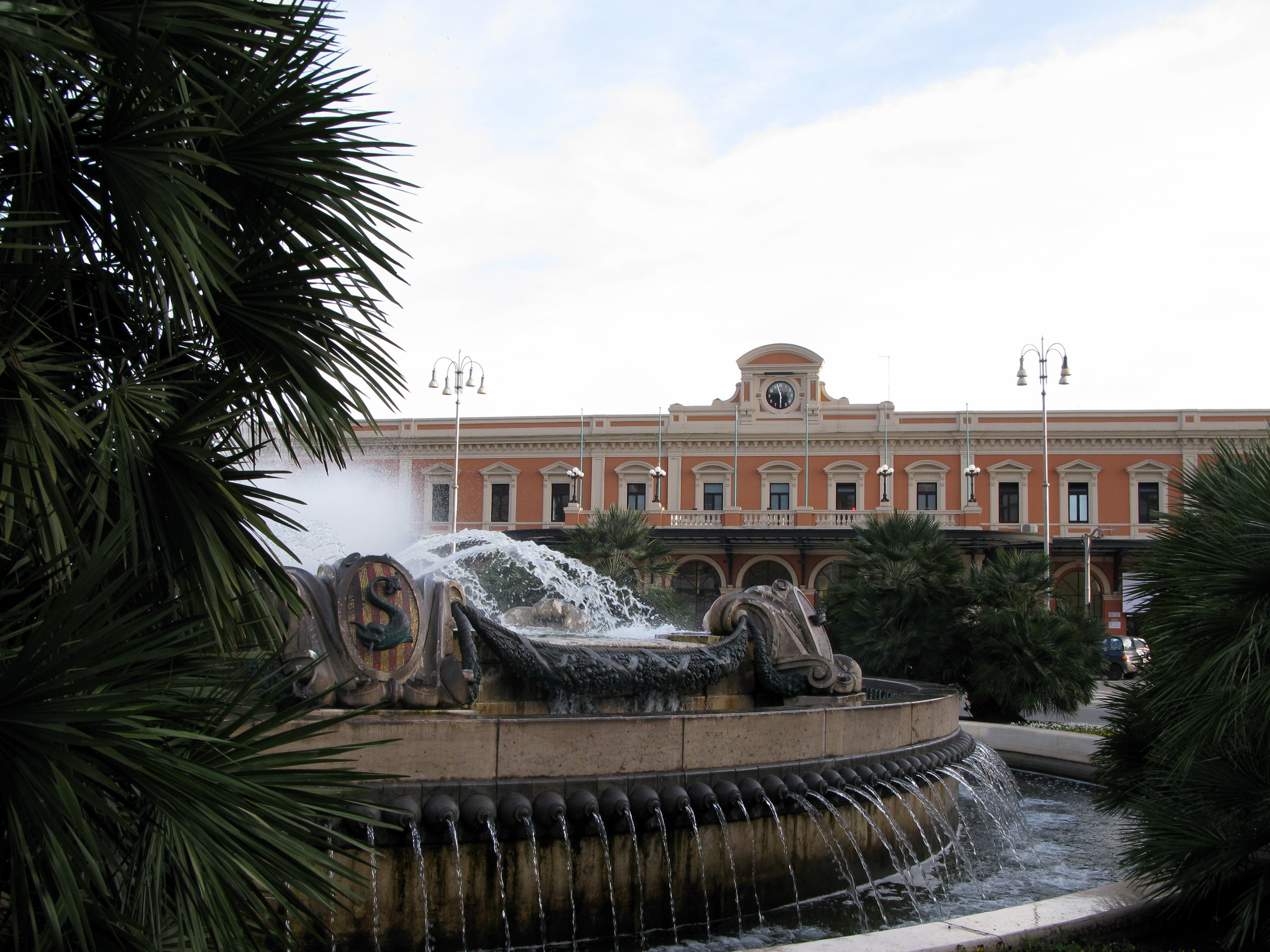 Bari Central Station, Piazza Aldo Moro, Bari, Puglia, Italy